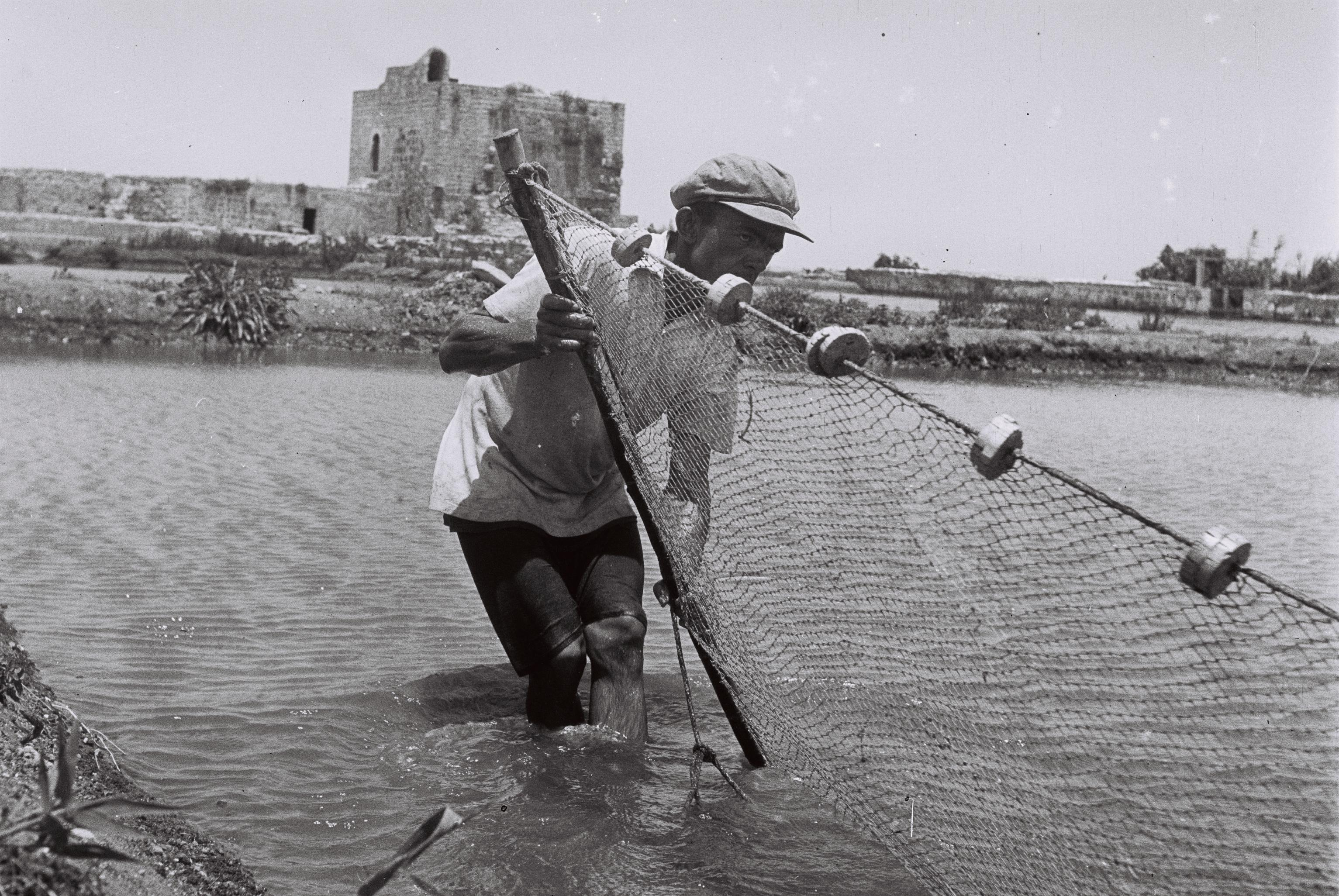 A JEWISH FISHERMAN LAYING HIS NET IN THE FISH POND AT THE KURDANI HARBOR, NEAR HAIFA. דייג של דגי קרפיון בבריכה בנמל קורדני, ליד חיפה.